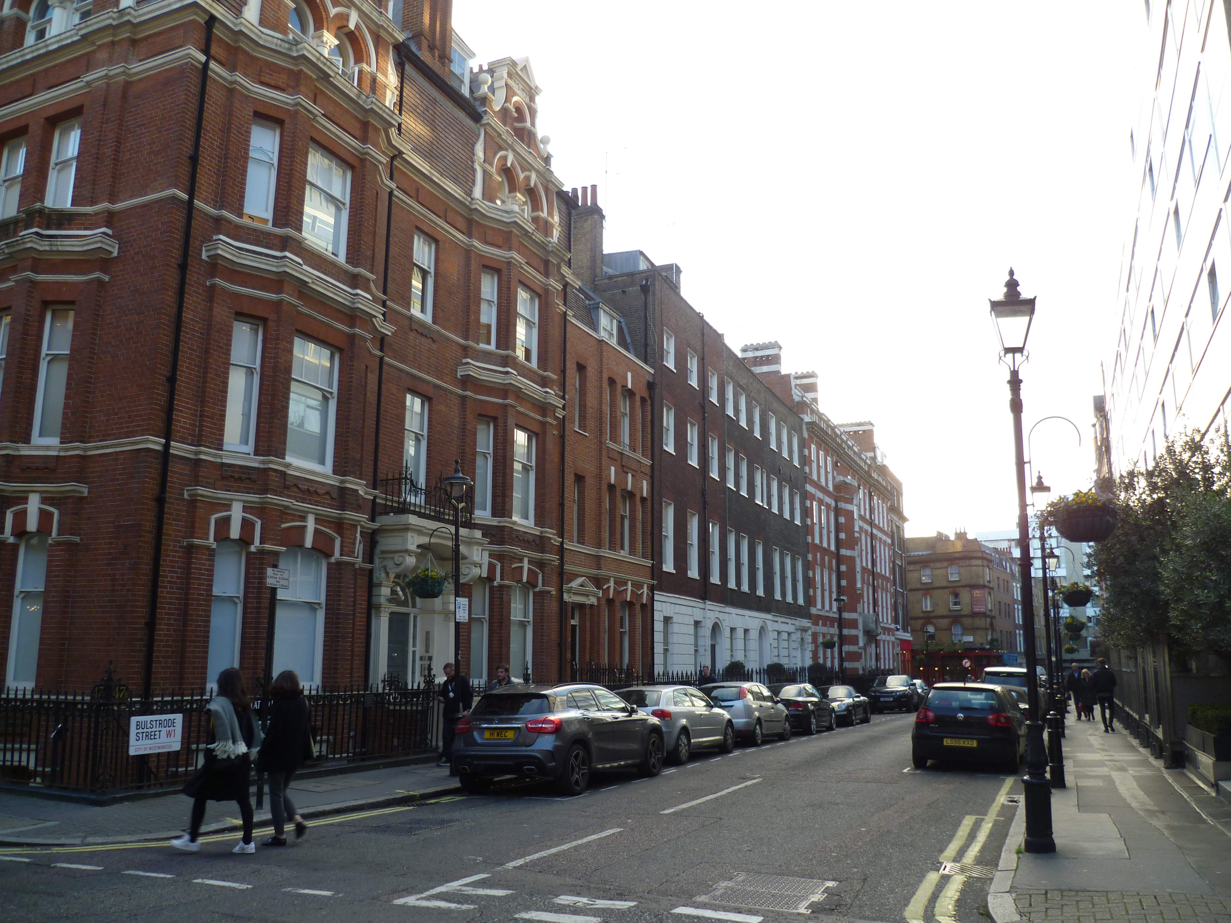 London